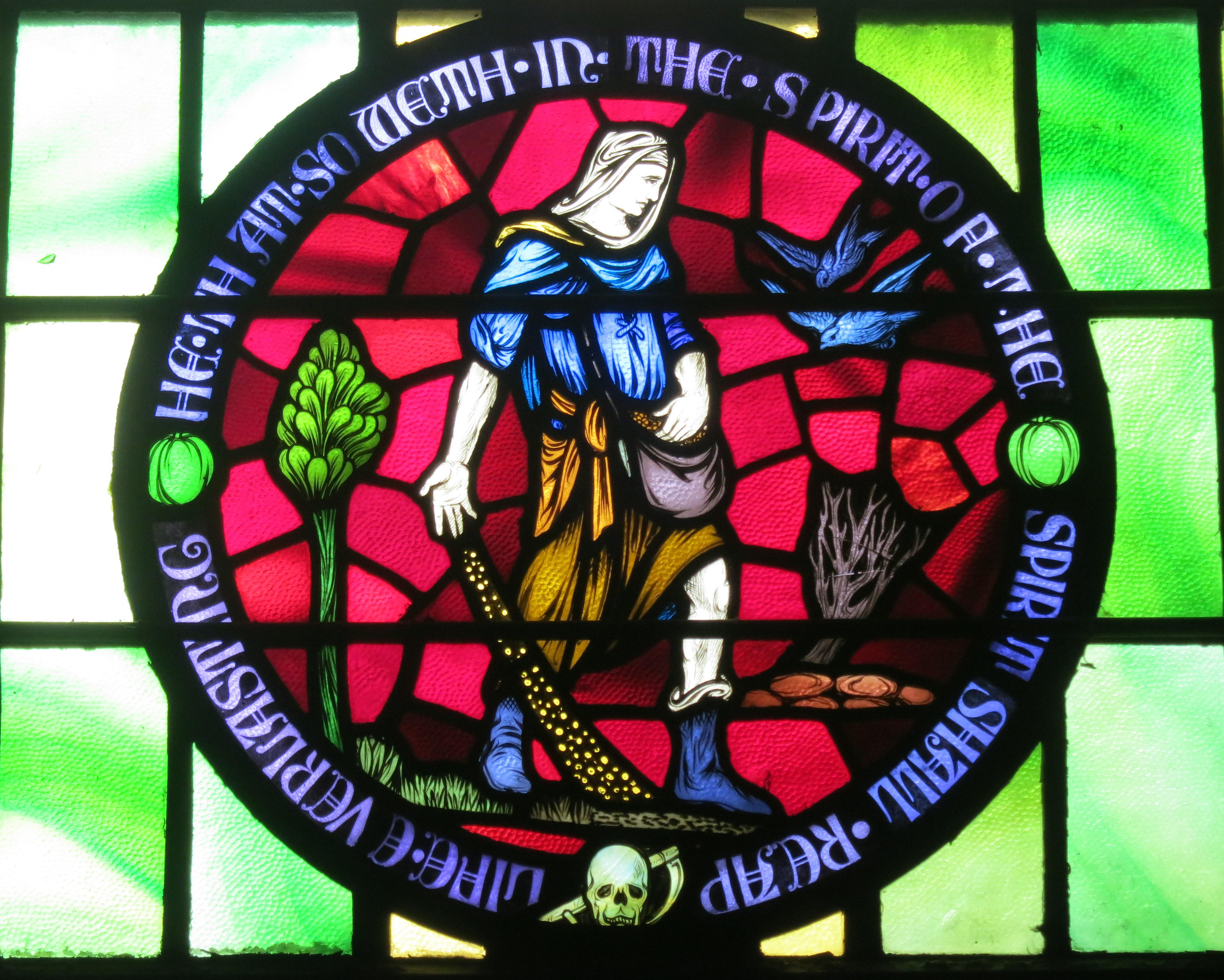 Saint Aloysius Catholic Church (Bowling Green, Ohio) - stained glass, clerestory, Sower of Galatians 6-8